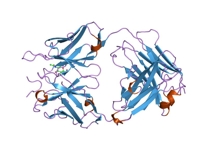 Cartoon representation of the molecular structure of protein registered with 2igf code.